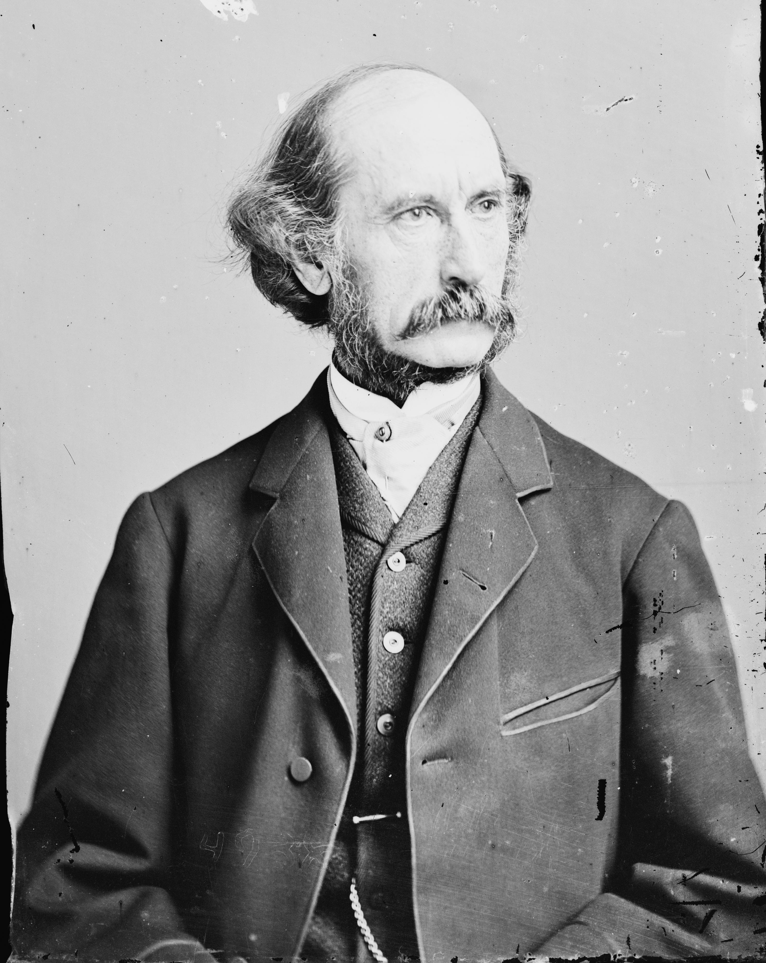 Lafayette S. Foster. Library of Congress Prints and Photographs Division. Brady-Handy Photograph Collection; CALL NUMBER: LC-BH82-4938 B. Library of Congress description: "Hon. Lafayette Sabine Foster of Connecticut", Note: Lafayette Sabin Foster was born in Franklin, New London County, November 22, 1806. A lawyer by profession, he spent most of his career in politics. He was elected to the Connecticut General Assembly, 1839–40, 1846–48, 1854, 1870. He was a candidate for Governor of Connecticut in 1850 and 1851, Mayor of Norwich, CT, 1851–52; US Senator from CT, 1855–67; Justice of the Connecticut State Supreme Court, 1870–76; and candidate for the US House of Representatives from Connecticut, 1874. He died in Norwich, CT, Sept. 19, 1880 (This summary was created using Commons SumItUp).